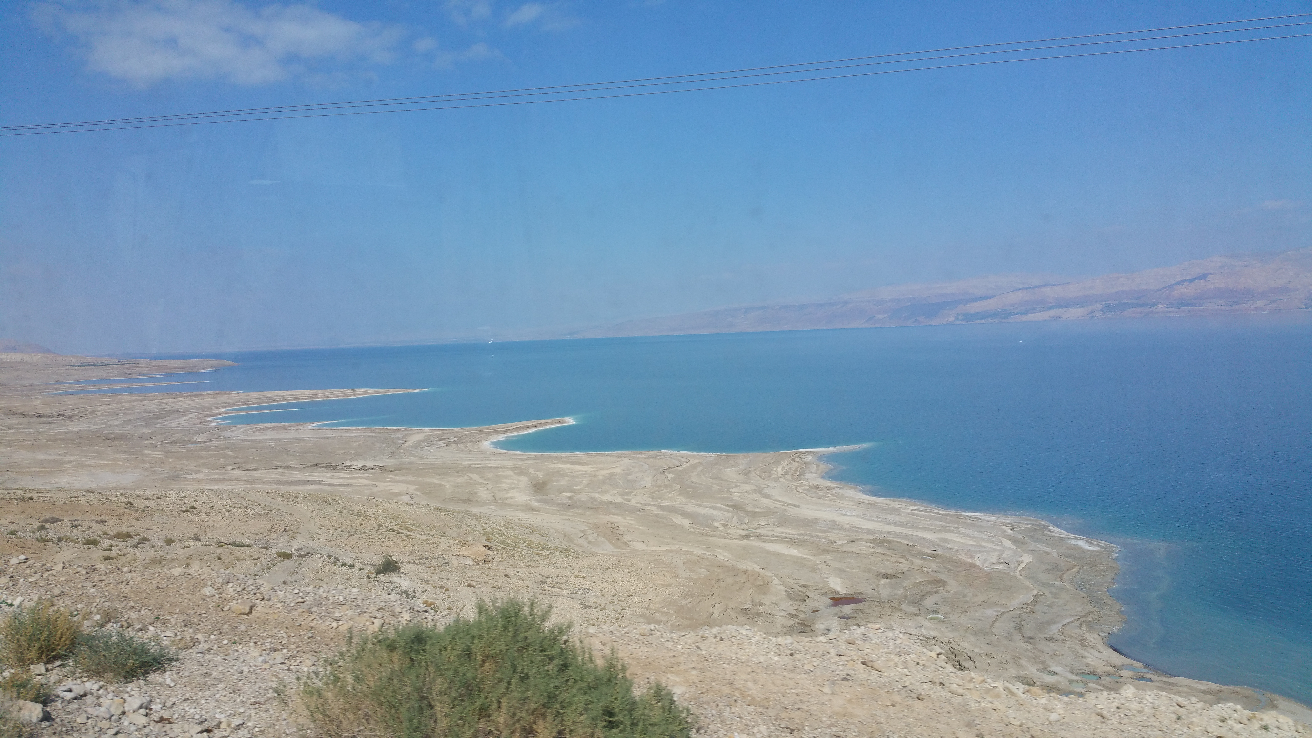 20160318_135118 Dead Sea